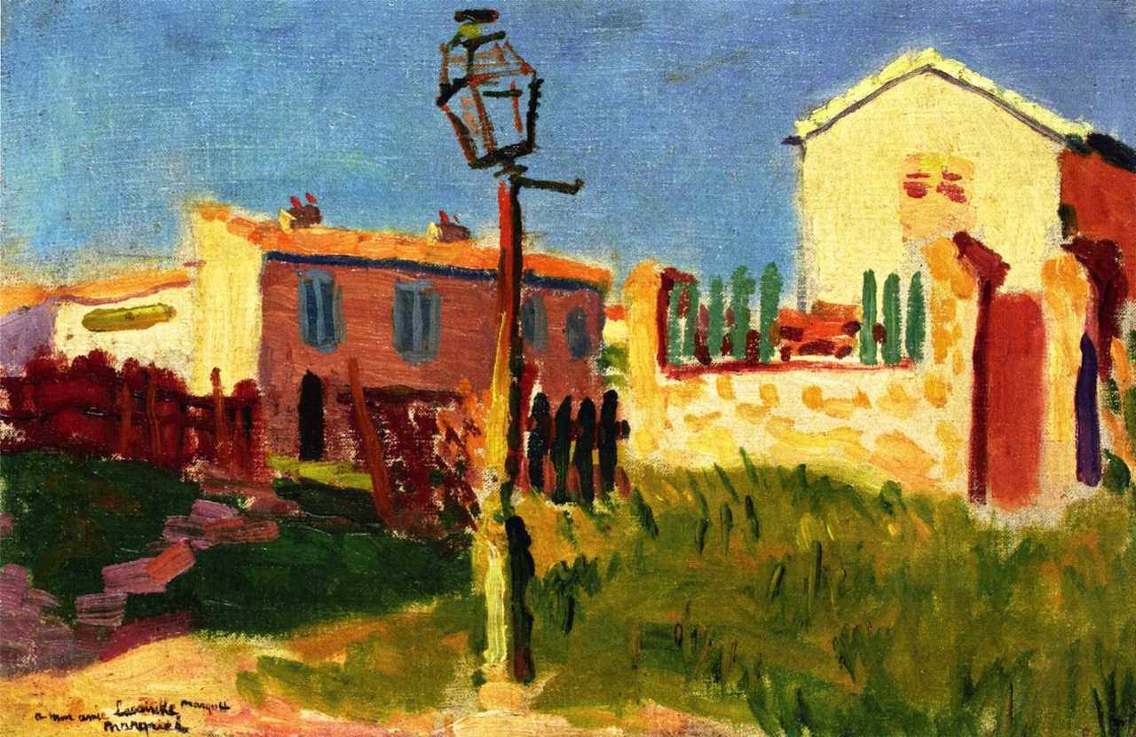 Street Lamp, Arcueil Albert Marquet (1899)